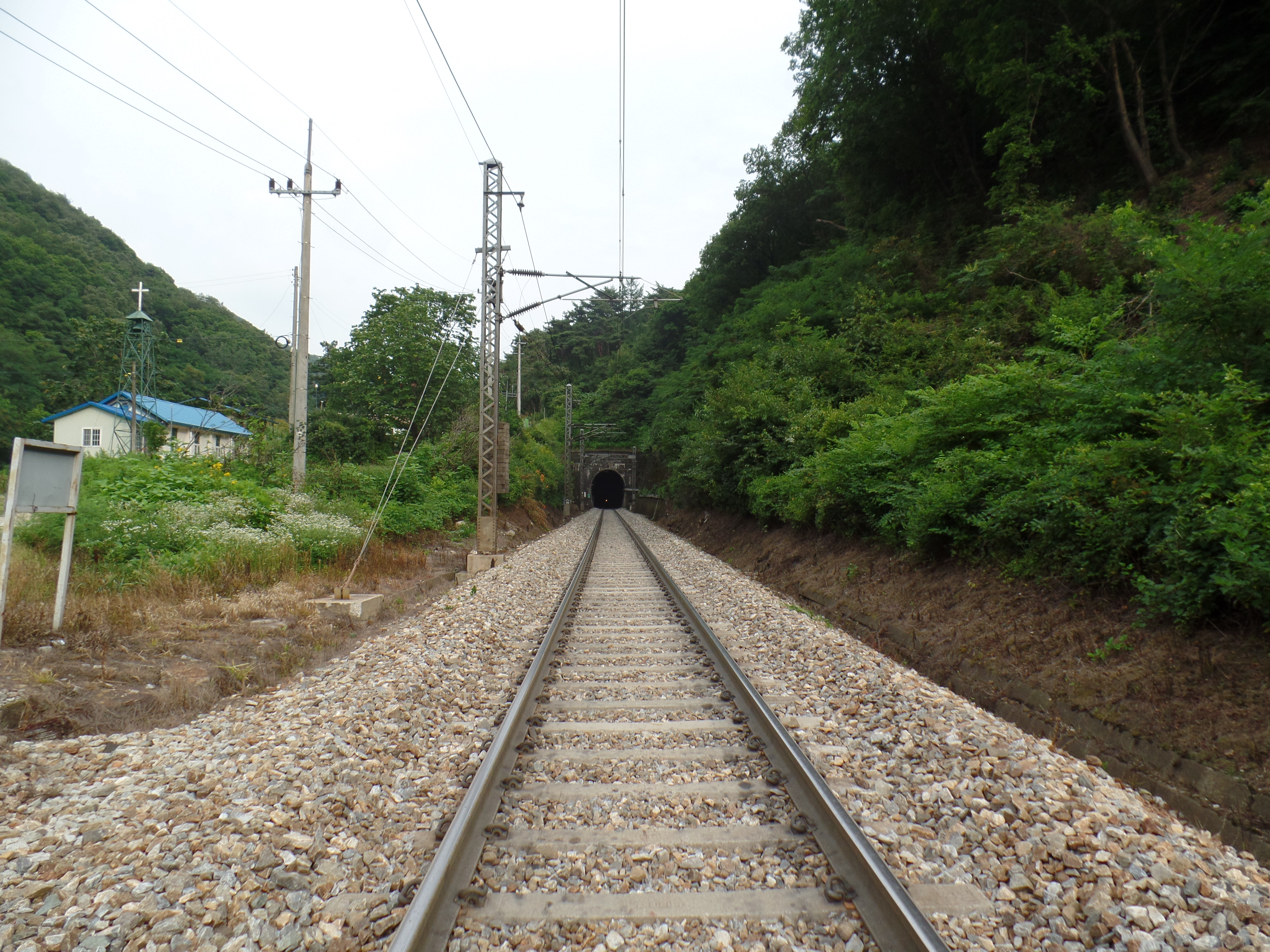 Chiak Tunnel Entrance(Southern Direction, Panbumyeon side)